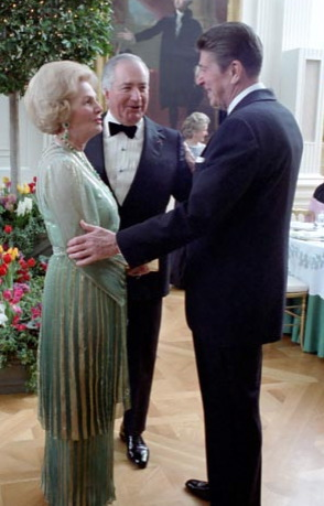 Walter Annenberg (center) and his wife, Leonore, greet U.S. President Ronald Reagan at the president's birthday celebration.